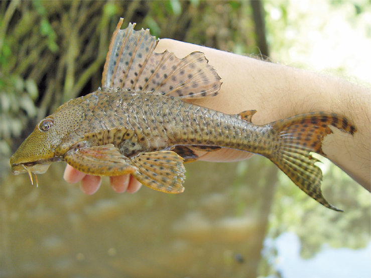 Hypostomus plecostomus (Mapana Creek, Commewijne River Basin)